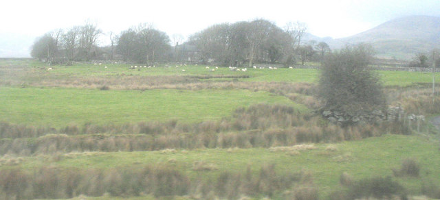 Clenennau/Clenenny Farm Clennenau was the home of the Royalist commander Col Sir John Owen. John Owen was a soldier's soldier. Sentenced to death, he was reprieved after the parliamentarian Griffith Jones of Castellmarch, near Abersoch SH 3129 was kidnapped by Irish privateers. A wing of the present house dates back to Sir John's time. 637804